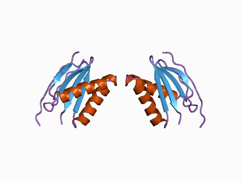 Cartoon representation of the molecular structure of protein registered with 1cmi code.